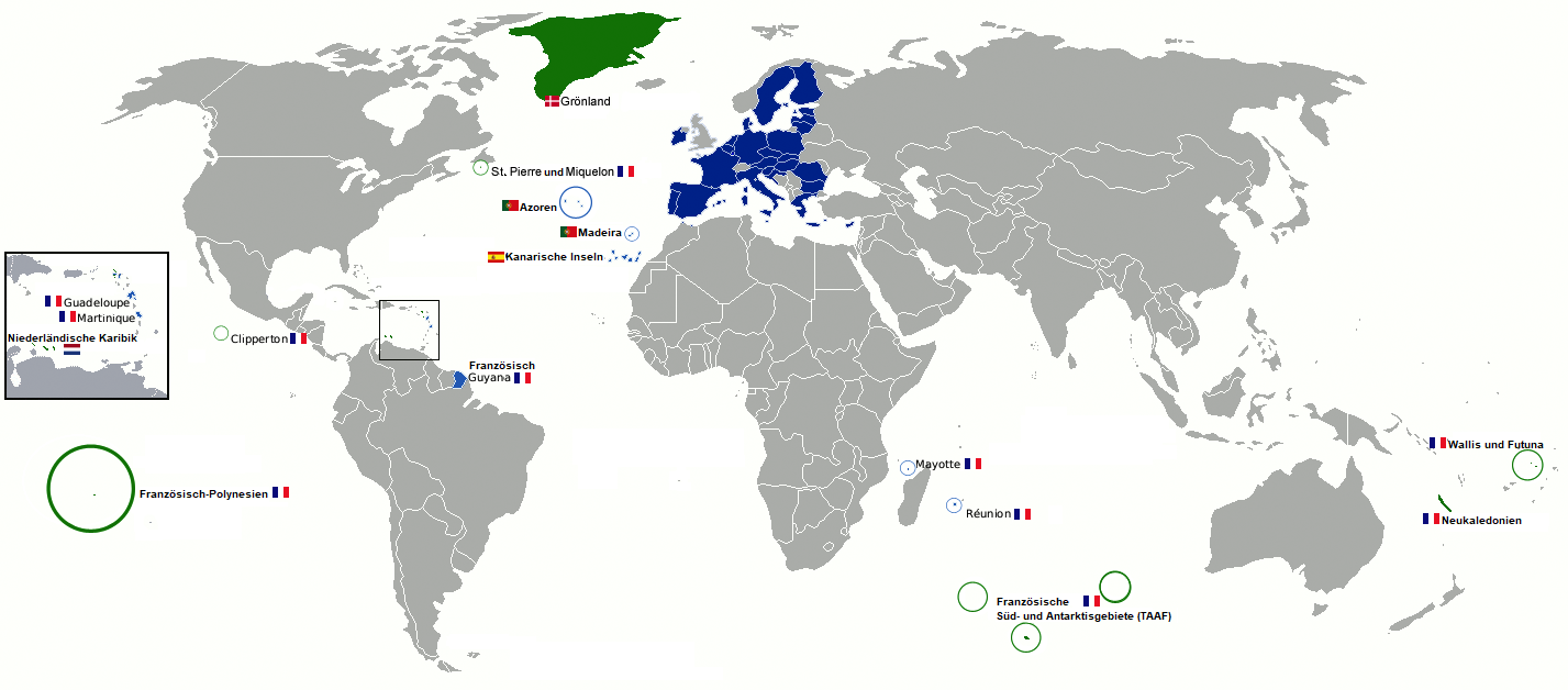 Special Member State territories and the European Union European Union Outermost regions (OMR) Overseas countries and territories (OCT)